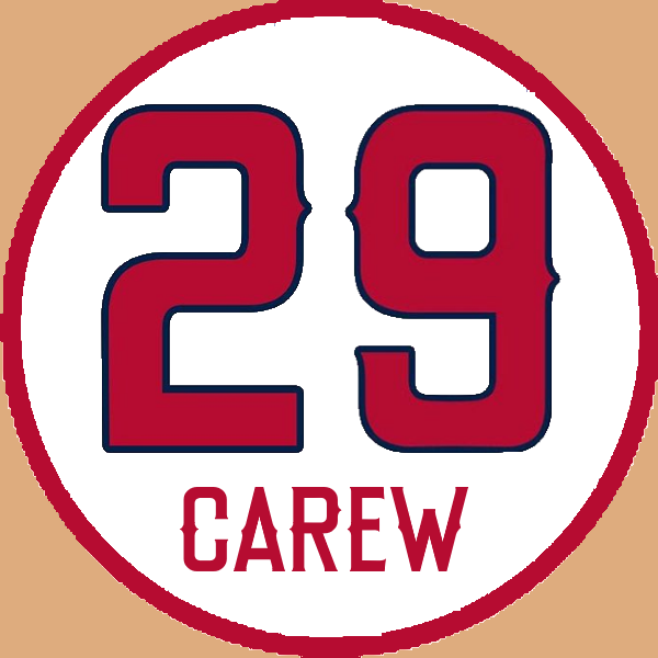 Illustration of Rod Carew's Retired Angels Number